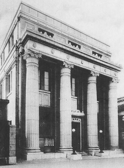 Bushu Bank Head Office